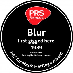 "Blur first gigged here": An Image of the PRS for Music 'Heritage Award' presented to East Anglian Railway Museum in 2009.